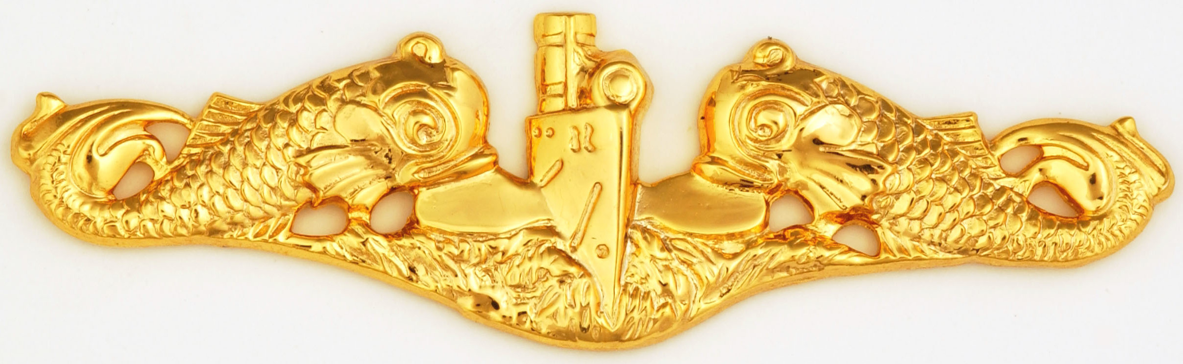 Submarine Officer badge